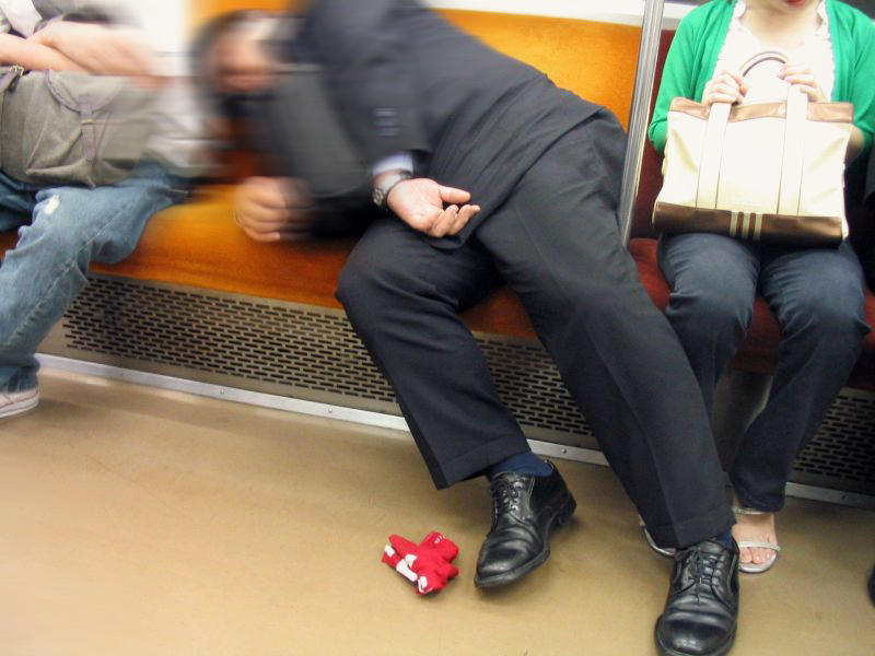 Salaryman asleep on the Tokyo Subway Original description: It was rush hour....... in the morning. Looks like this guy had a long night and made the subway his bed. He kept falling over on the other passengers and rolling around. Everyone did their best to ignore him, I had to try really hard not to laugh.